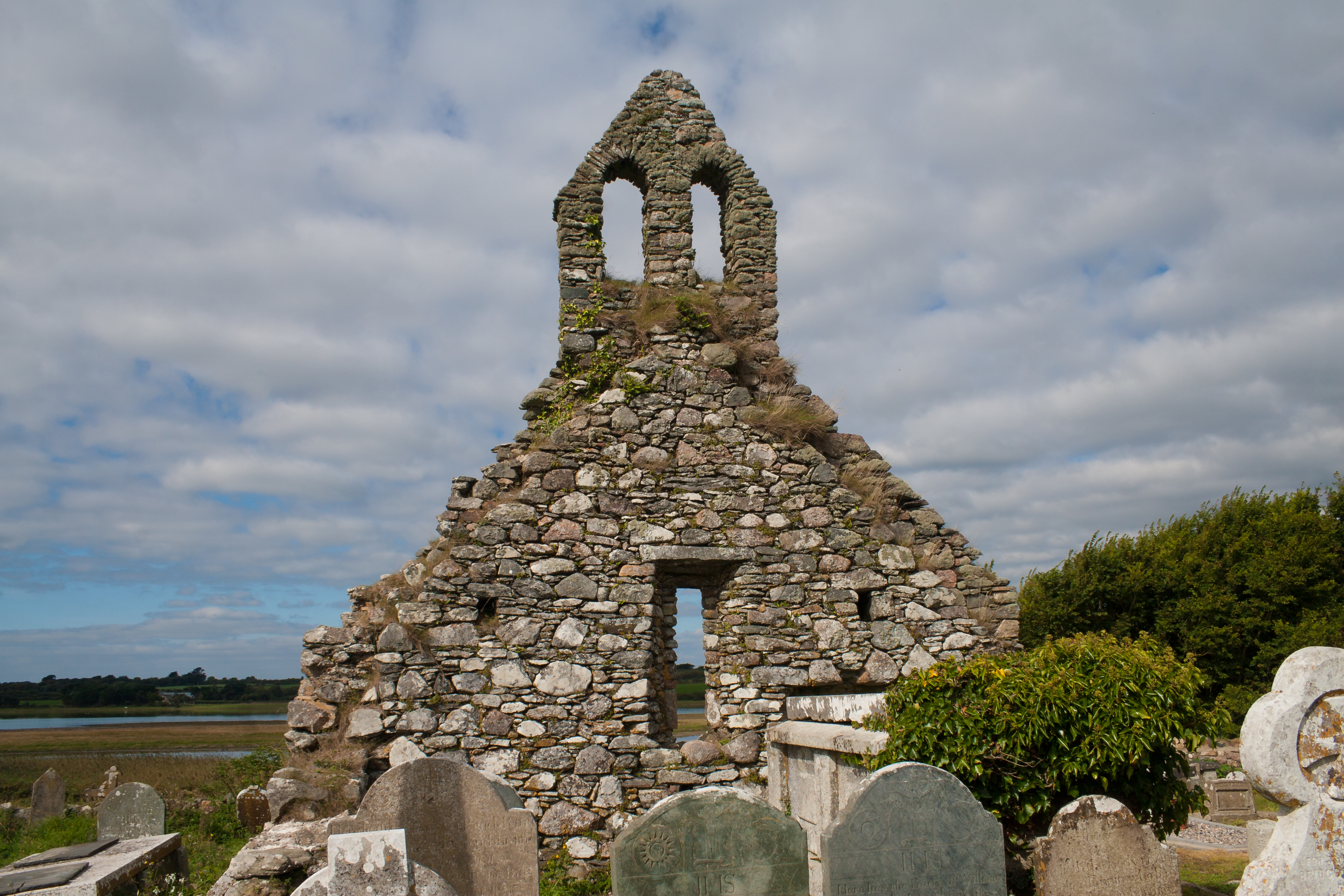 Old St. Ibar's church at the site of the graveyard. This may have been a small cell belonging to the Augustinian abbey of Ferns. In the 17th century, it belonged to the Augustinian friars who stayed here until the arrival of Cromwell. The only surviving structure is the west gable which is to be seen here from its eastern side.